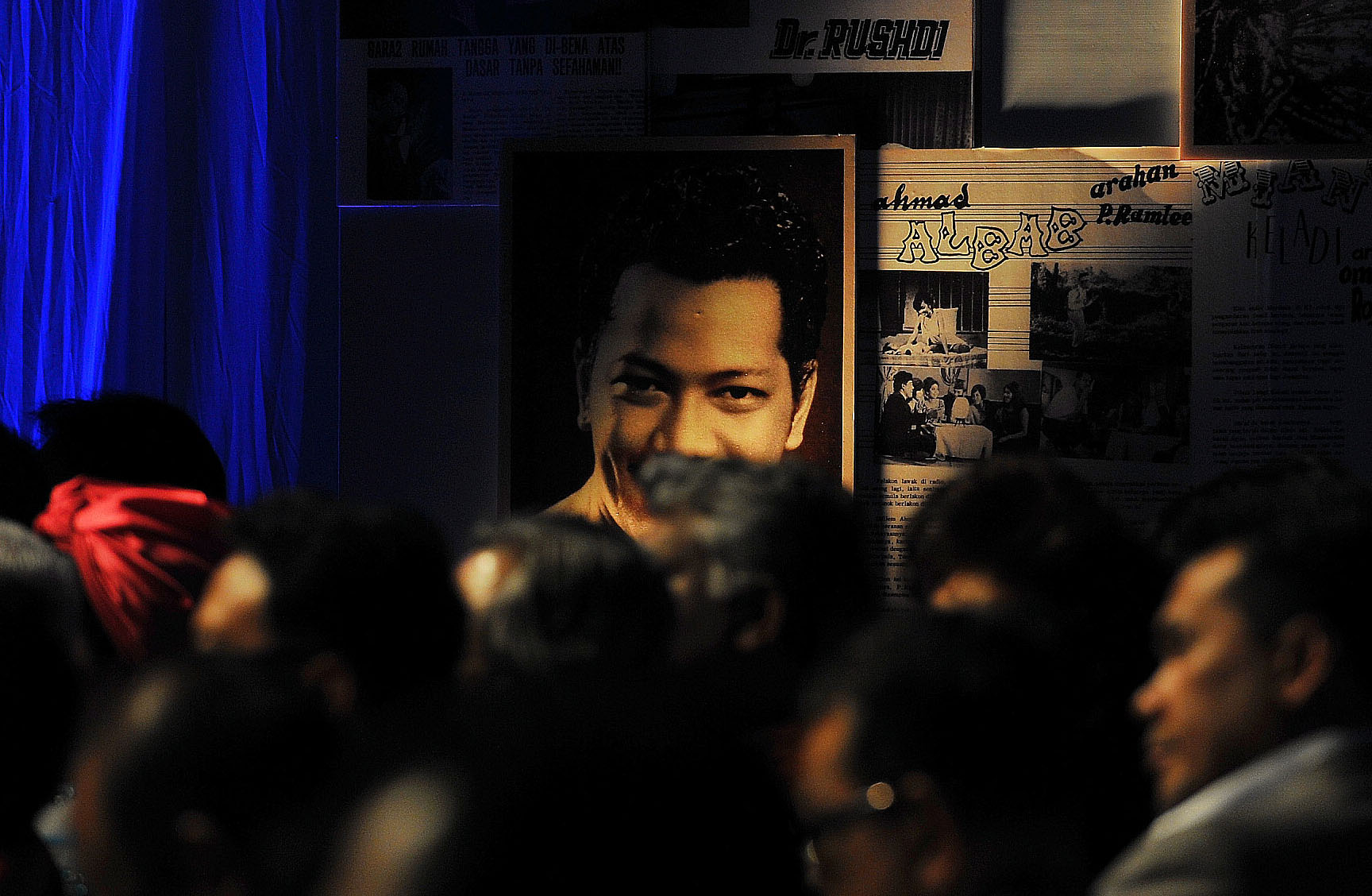 P.Ramlee Chair